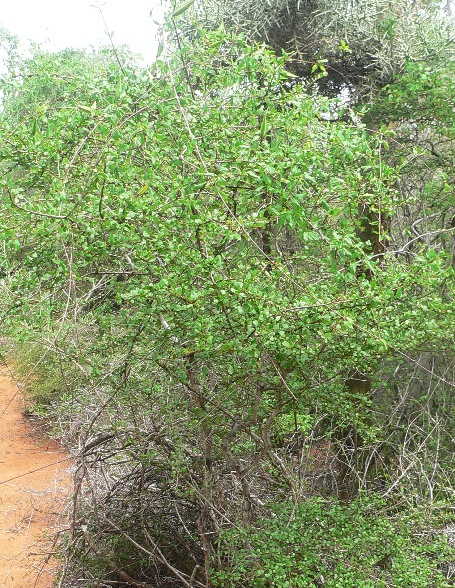 Khaya madagascariensis (Meliaceae) from spiny forest close to Mangily, western Madagascar